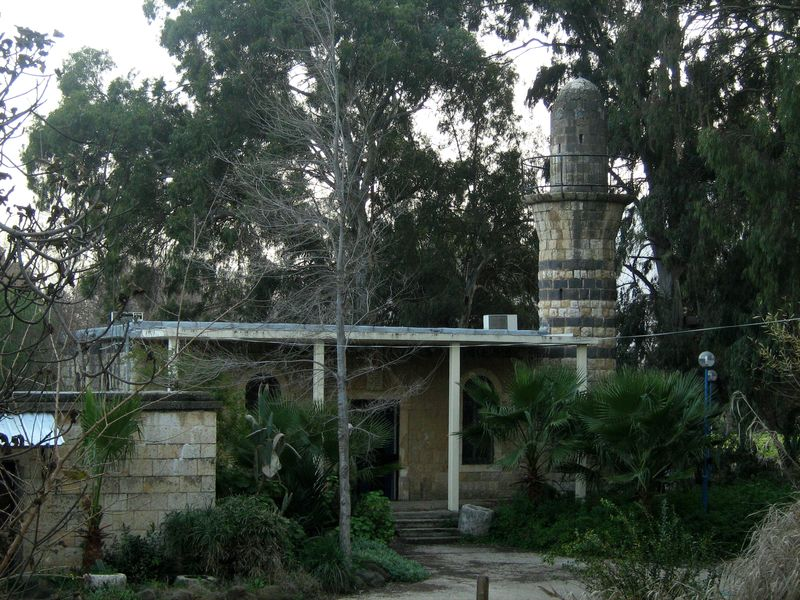 Qiryat Shemona City Museum